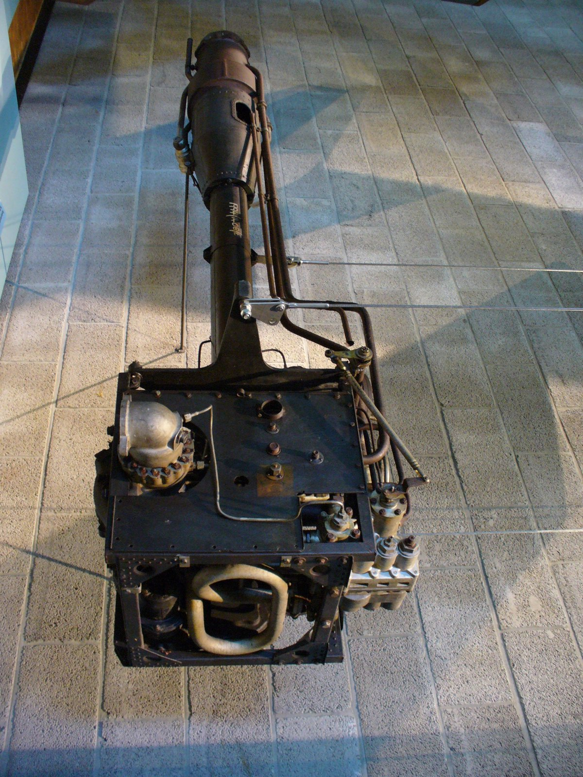 Walter HWK 109-509, early German rocket engine, used in Messerschmitt Me 163 rocket planes